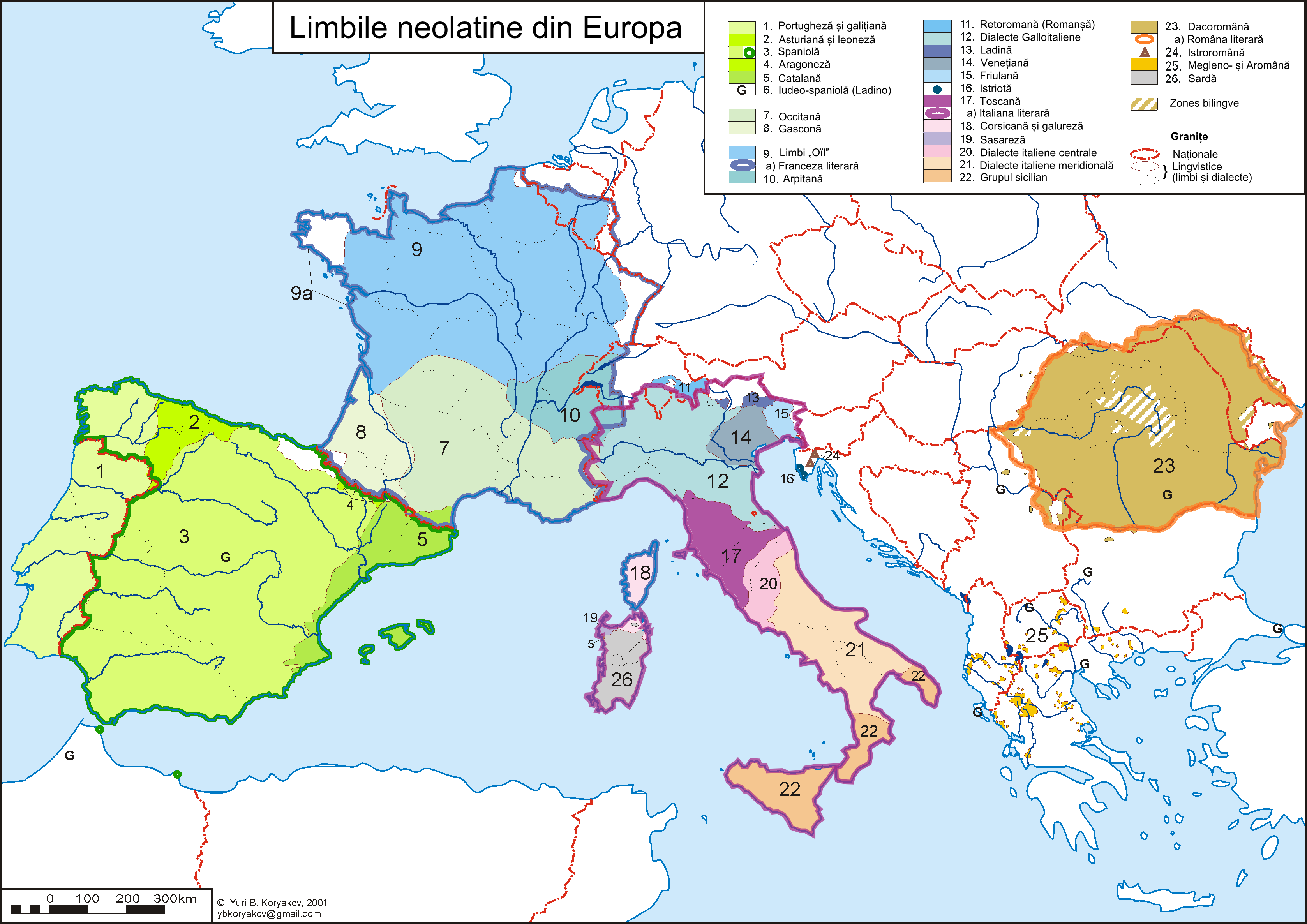 Romance languages in Europe in 20 c. AD. Romanian version.